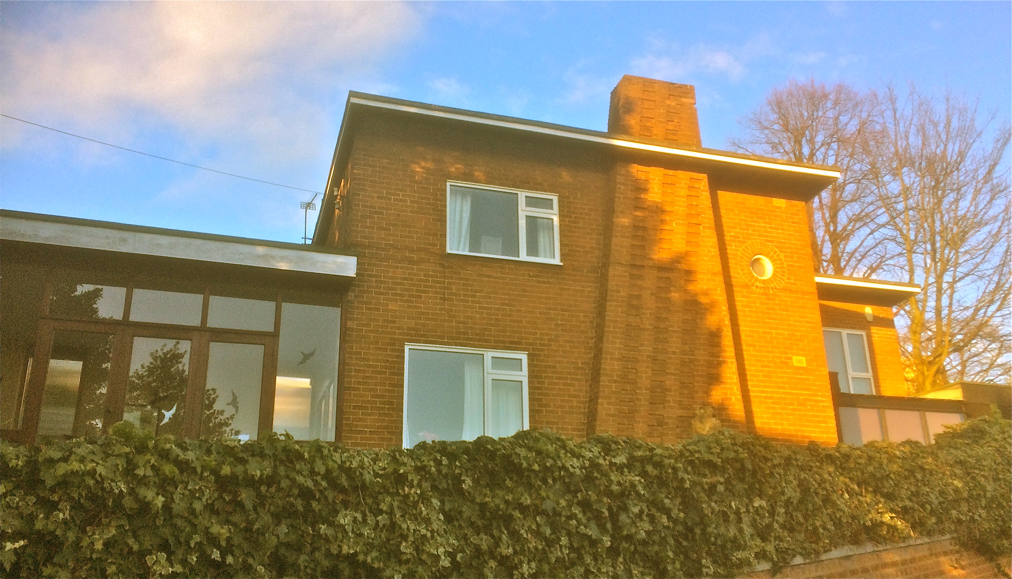 House built for the artist Tony Bartl at 5 Gibraltar Hill in 1955, to designs by the architect Edward Albarn, a conscientious objector, who was a member of a pacifist community based at Holton cum Beckering, near Wragby. Albarn was Head of the School of Architecture at Lincoln College of Art.